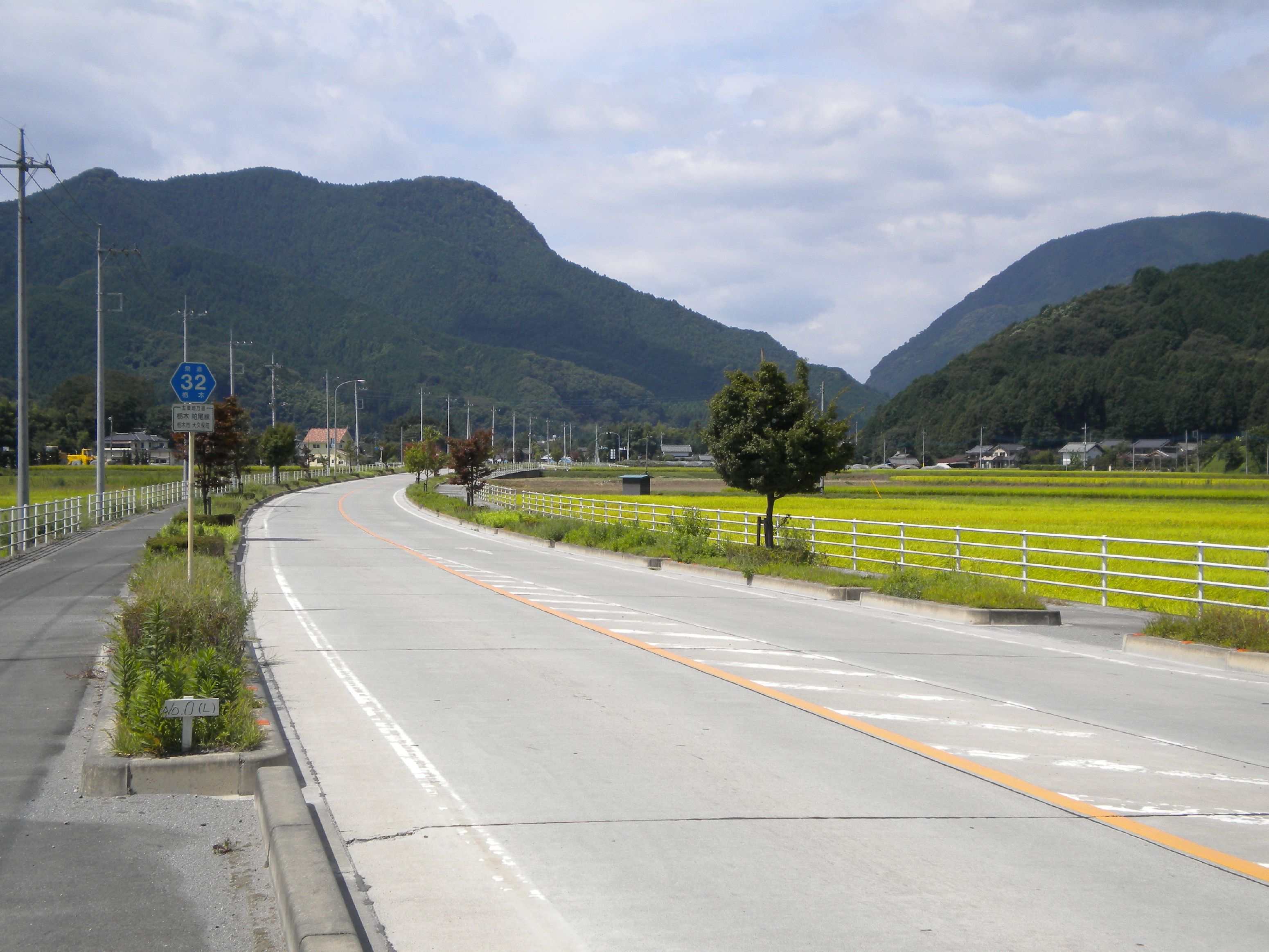 The Tochigi Prefectural Road Route 32 in Okubomachi, Tochigi City